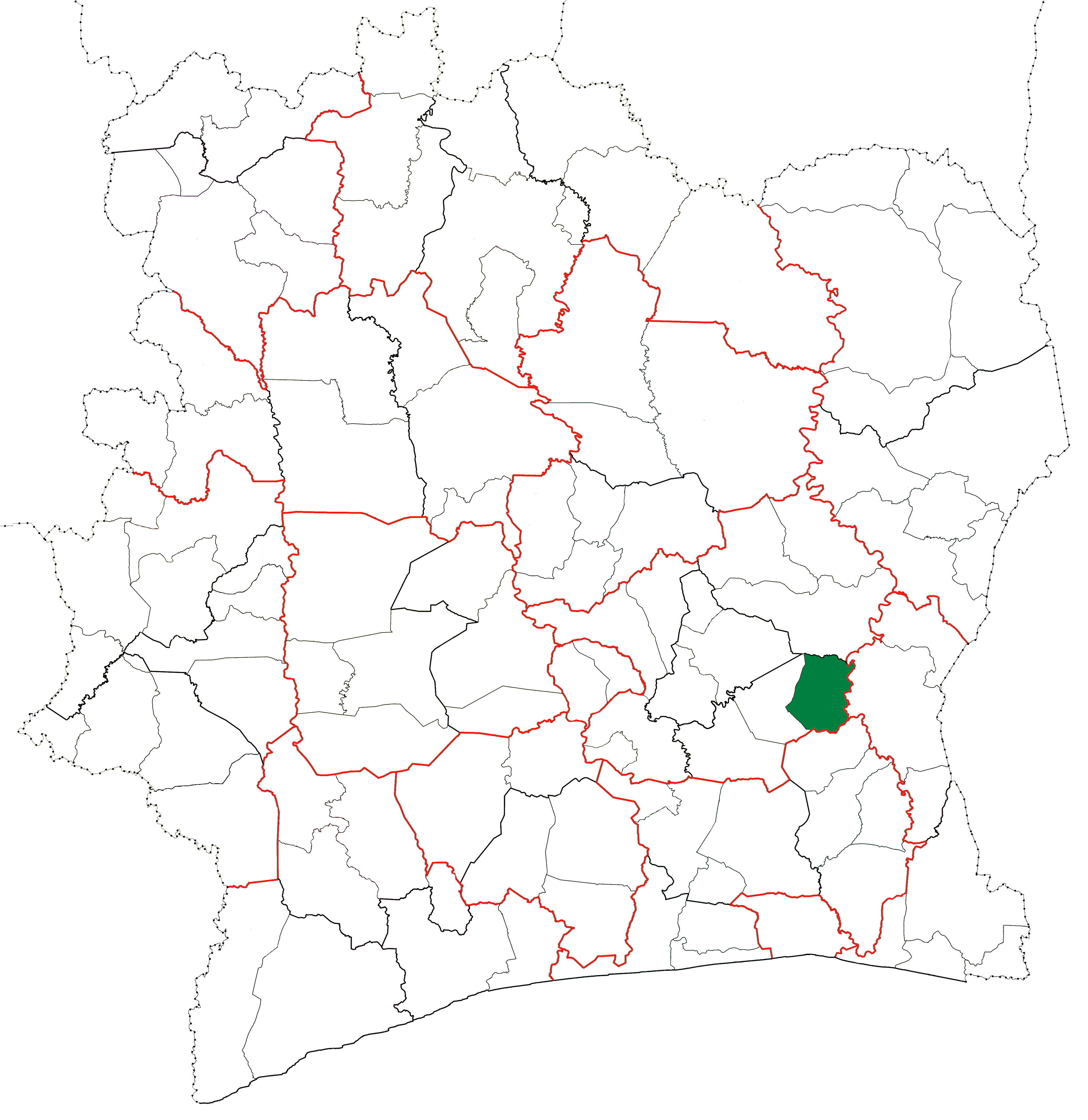 Locator map for Arrah Department in Côte d'Ivoire.